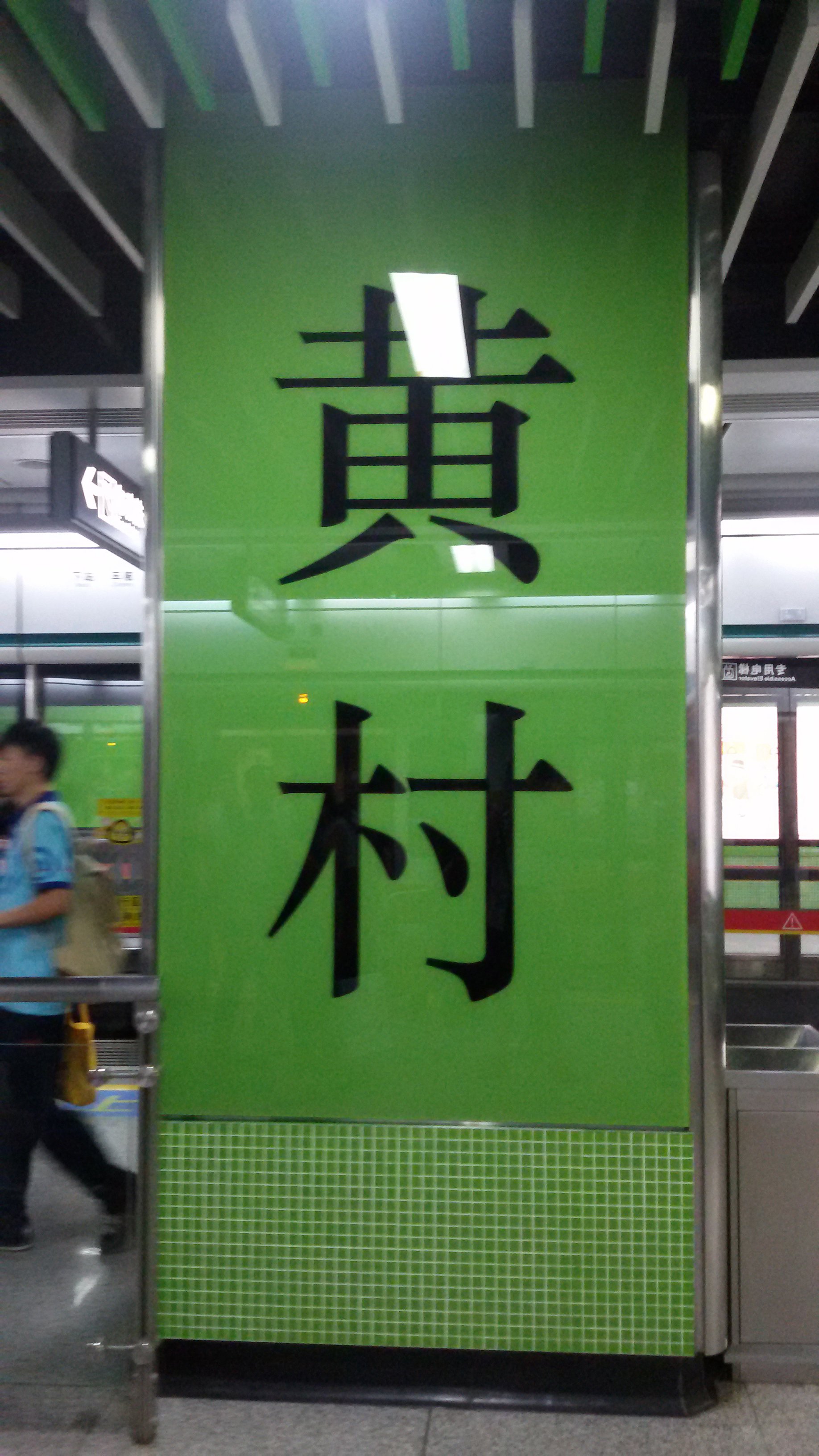 WORD on PILLAR for Huangcun Station in Guangzhou Metro 粵語: 廣州地鐵，黃村站嘅柱上面啲字。